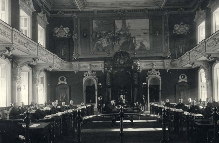 Legislative Council of Quebec in 1924. The president is Adélard Turgeon.The painting on the wall is L'arrivée de Champlain à Québec by Henri Beau, painted in 1904. It was removed circa 1930.